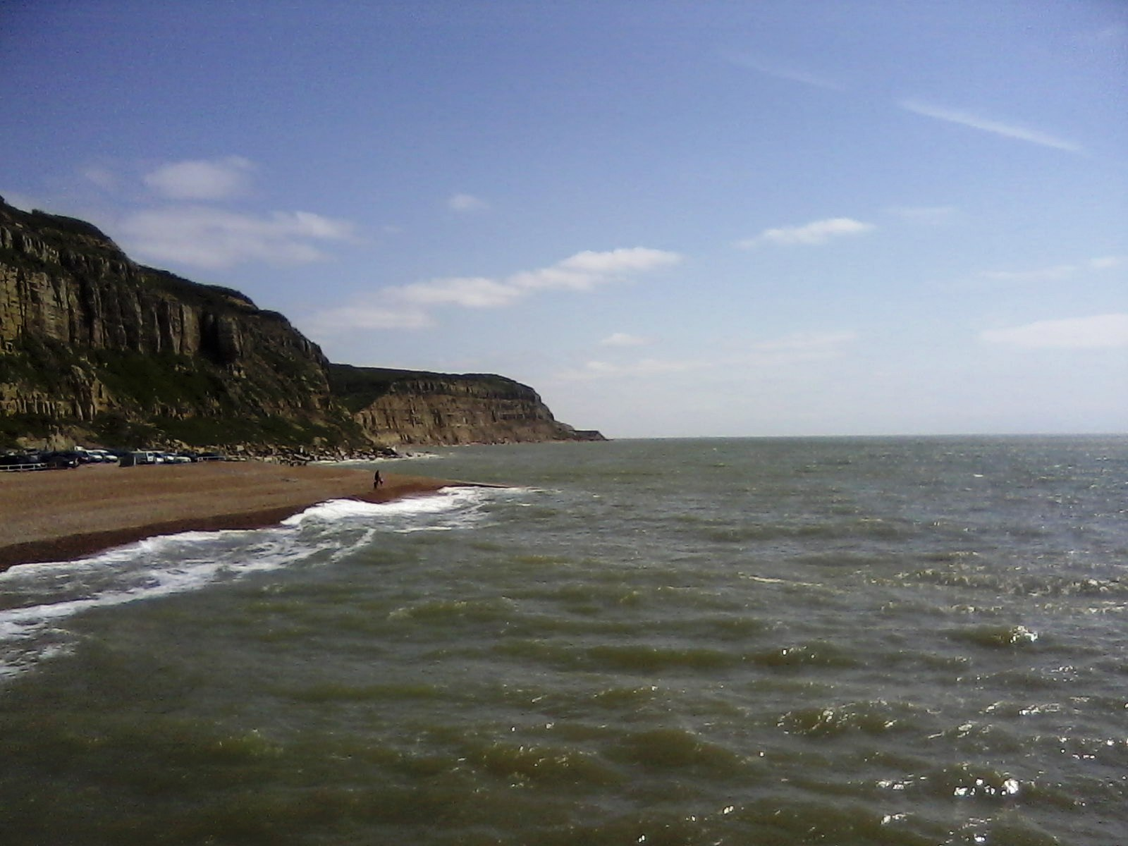 East cliff at Hastings in east Sussex